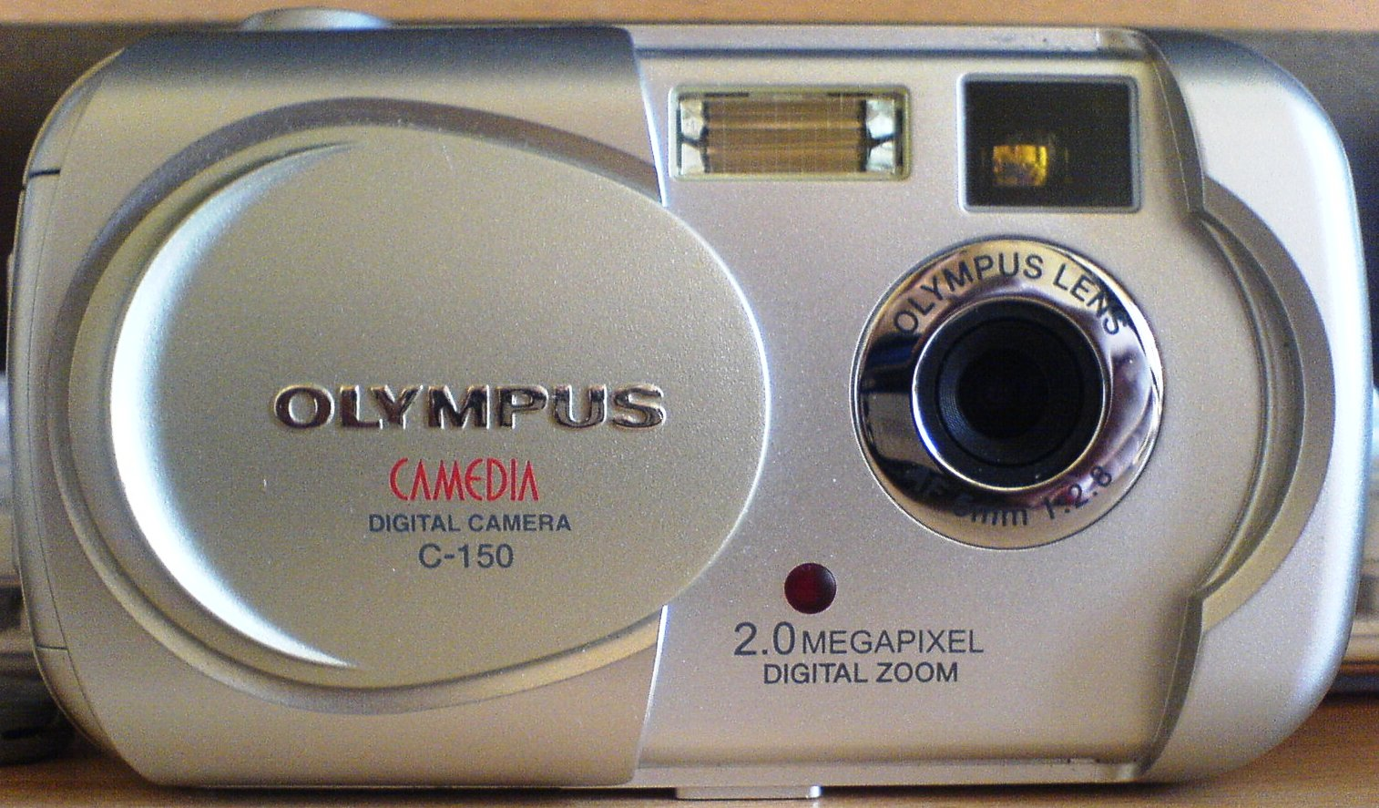 Image of an Olympus C-150 digital camera, taken by me (J Di).